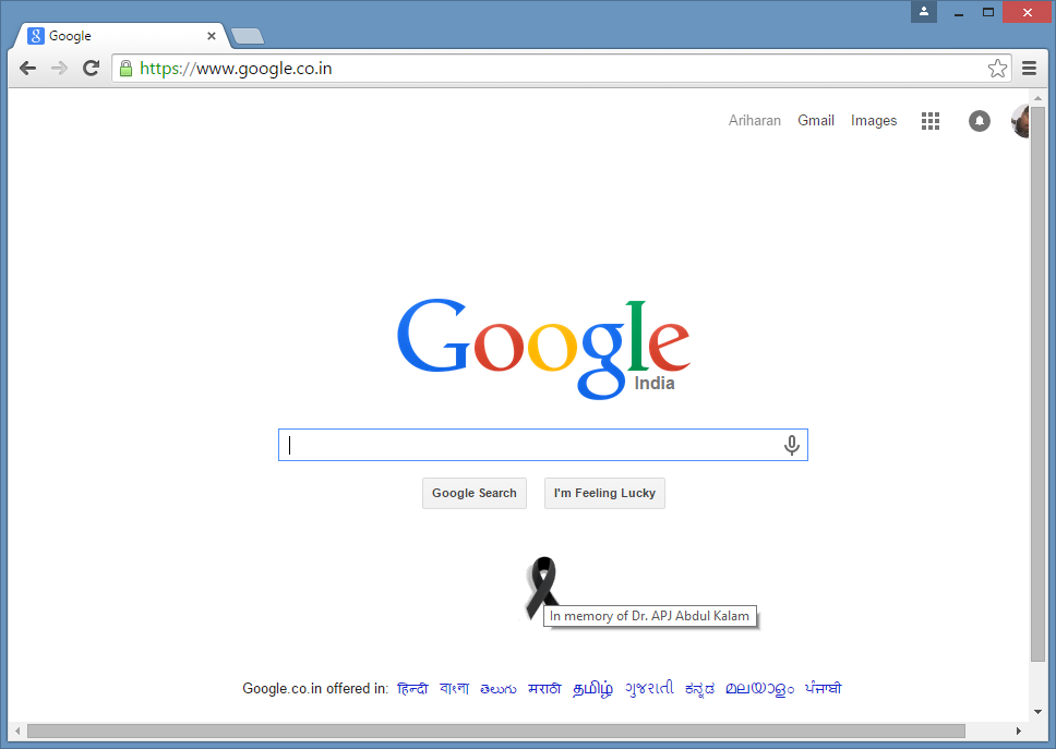 Snapshot of showing black ribbon with tool tip "In memory of Dr APJ Abdul Kalam".